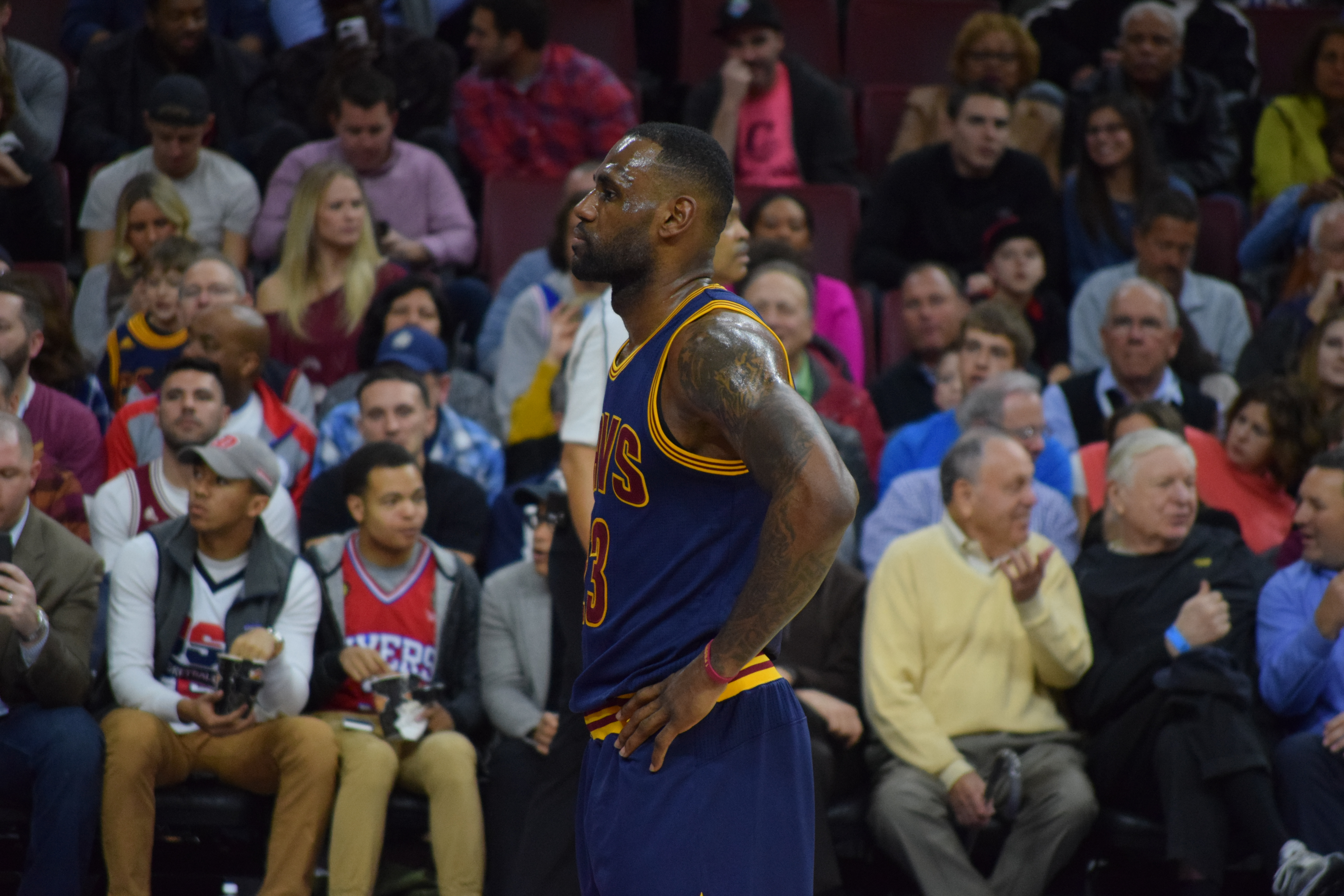 lebron james